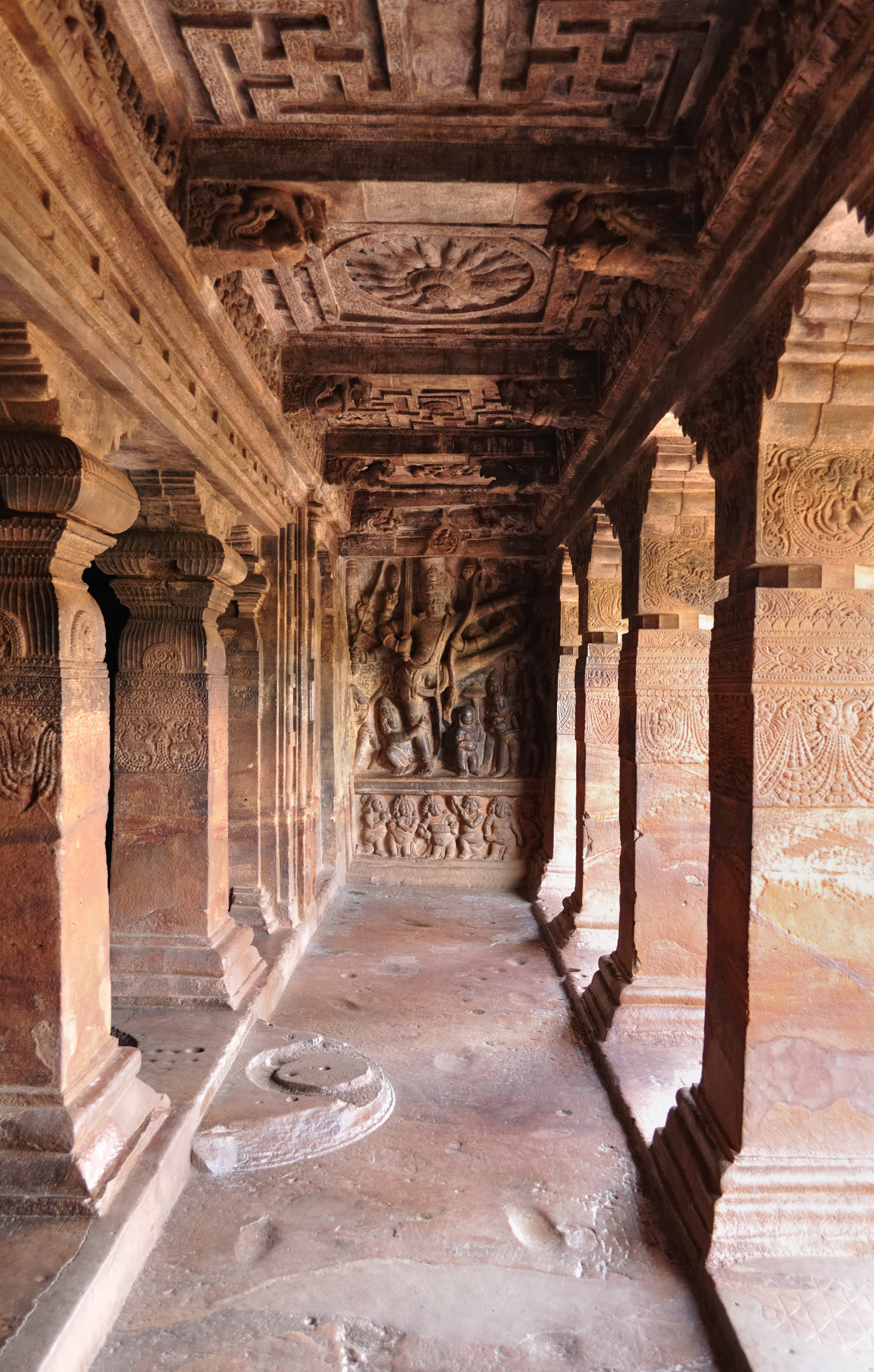 Badami Cave 2 is dedicated to God Vishnu. This cave is not as large as Cave 3 but it has good figures and depictions of events of God Vishnu. Nice color tones can also be seen in the Badami (brown) sandstones. More information about the cave temples can be found on English Wikipedia: Note: This photograph uses Adobe RGB color space. It is recommended that the photograph be viewed in a browser/image viewer that supports non-sRGB color space. Safari and Firefox include non-sRGB color space support by default